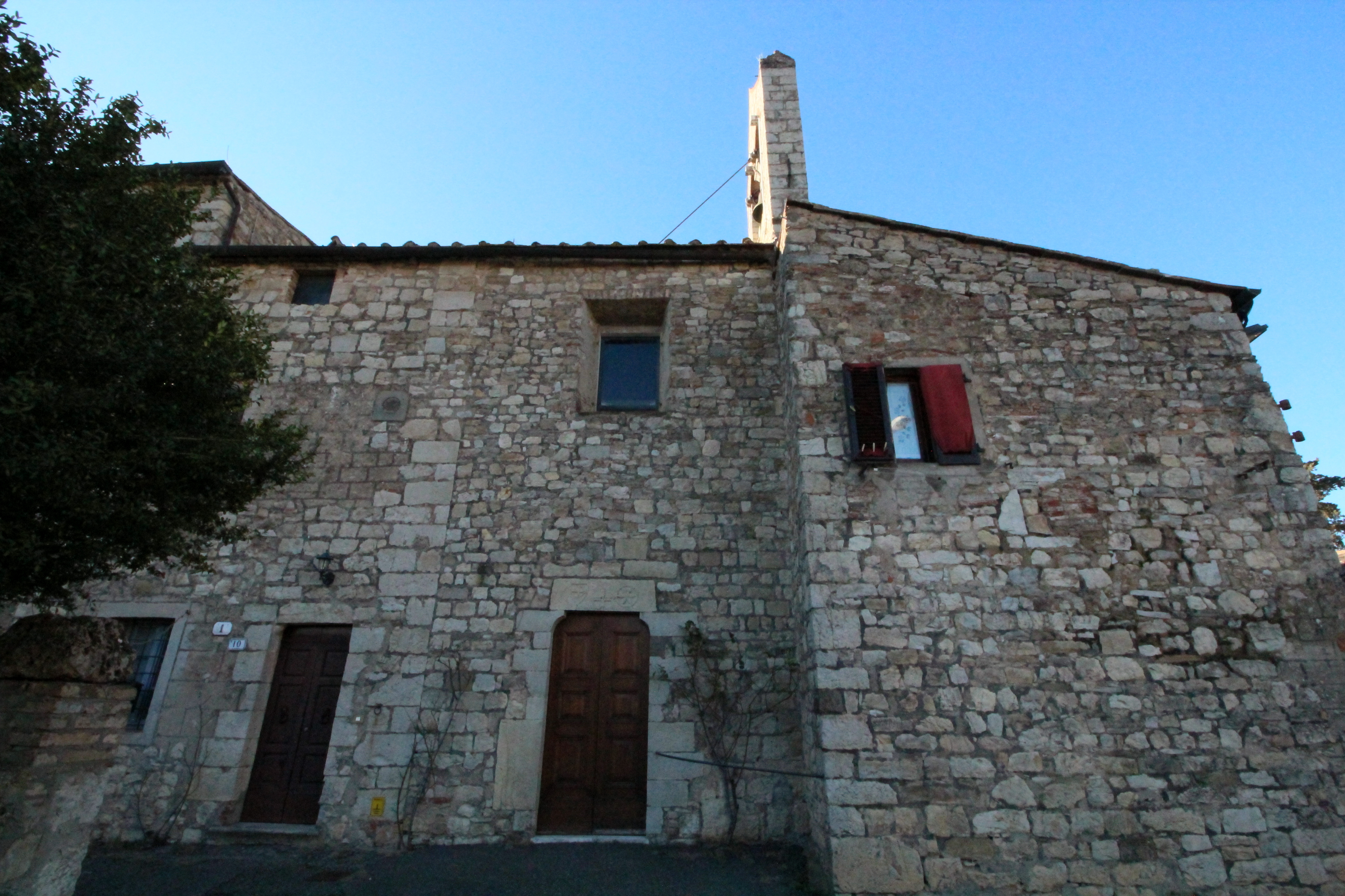 Church San Martino in Lecchi in Chianti, hamlet of Gaiole in Chianti, Province of Siena, Tuscany, Italy